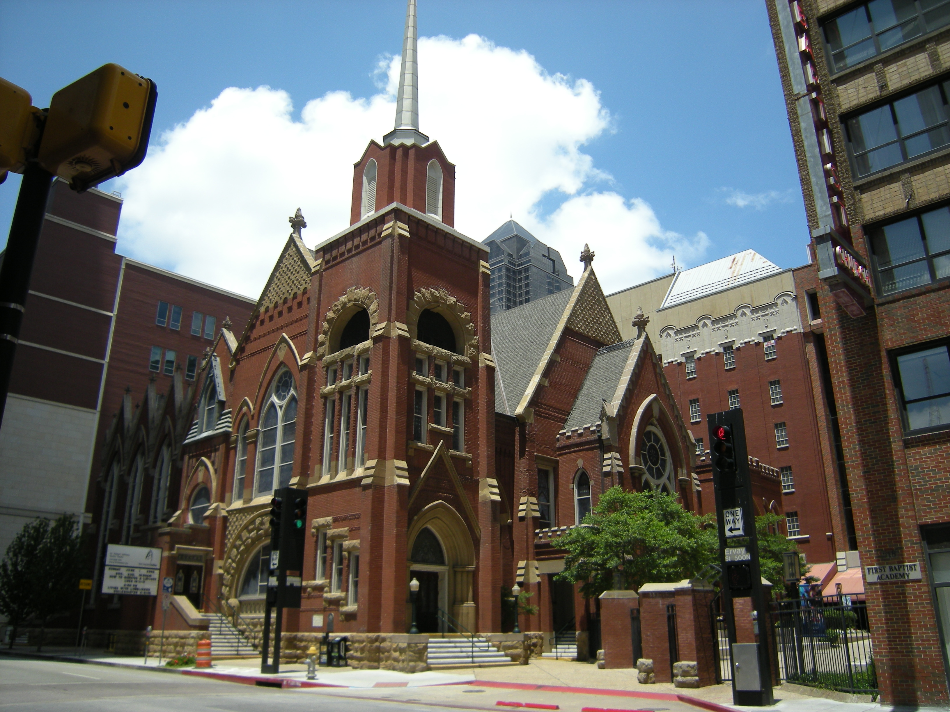 First Baptist Church, downtown Dallas, Texas.